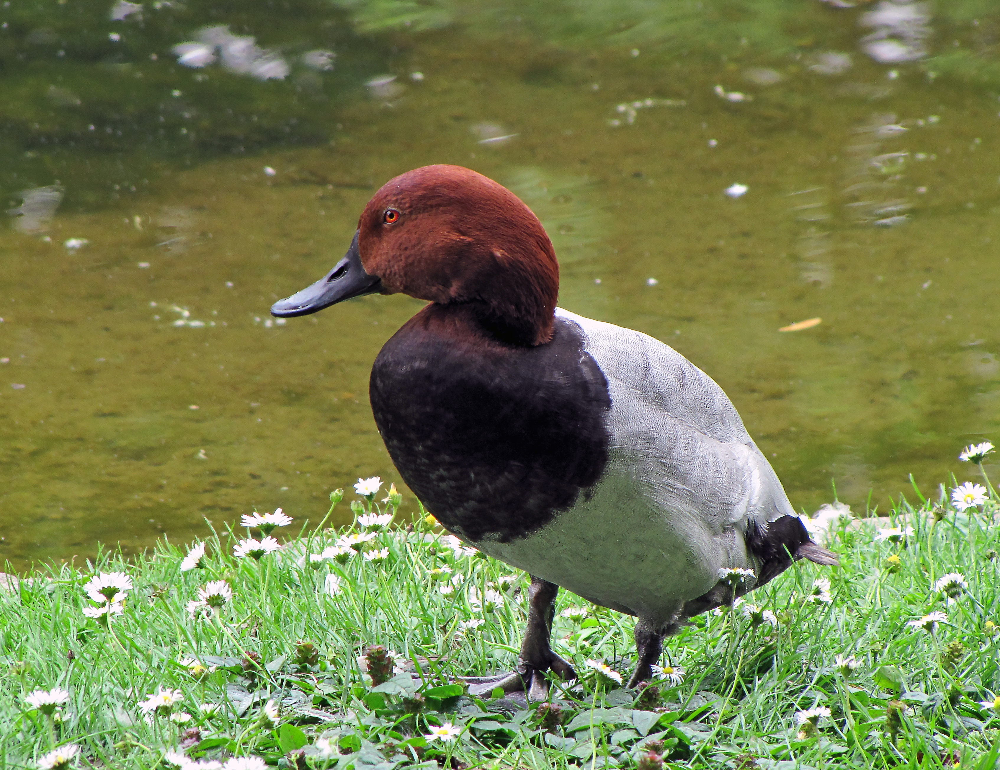 Male common pochard, St. James Park, London, UK; 2011 June 20.